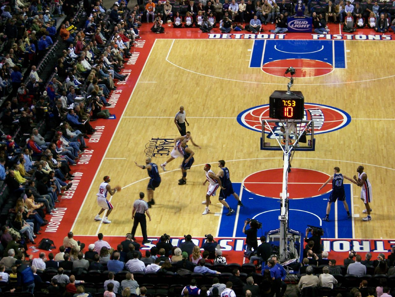 Detroit Pistons vs. Utah Jazz game, The Palace at Auburn Hills, January 2006